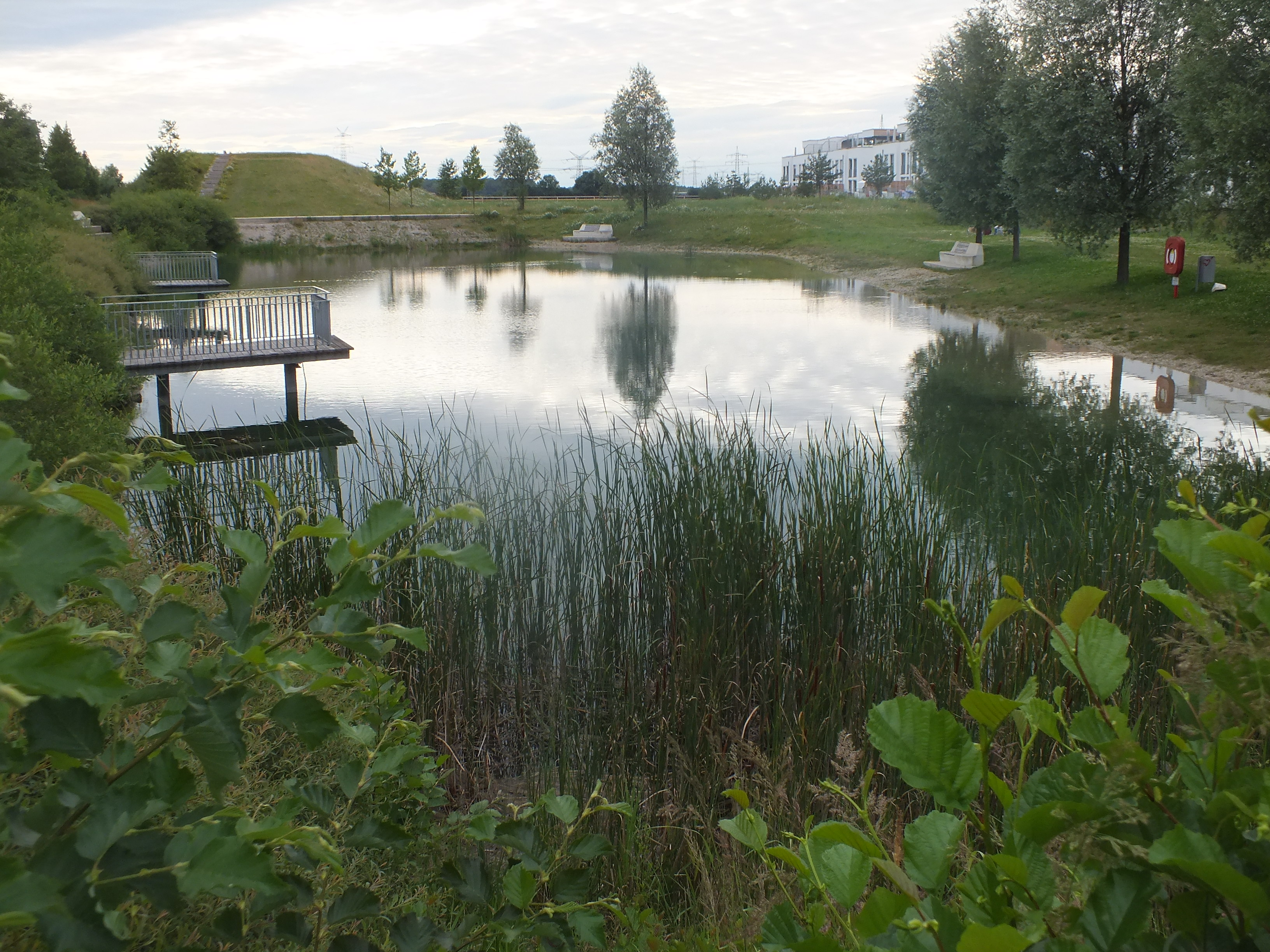 Prinzenpark in Karlsfeld